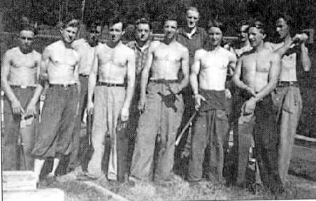 Elever på Egge bygger sin egen skole, Steinkjer 1947